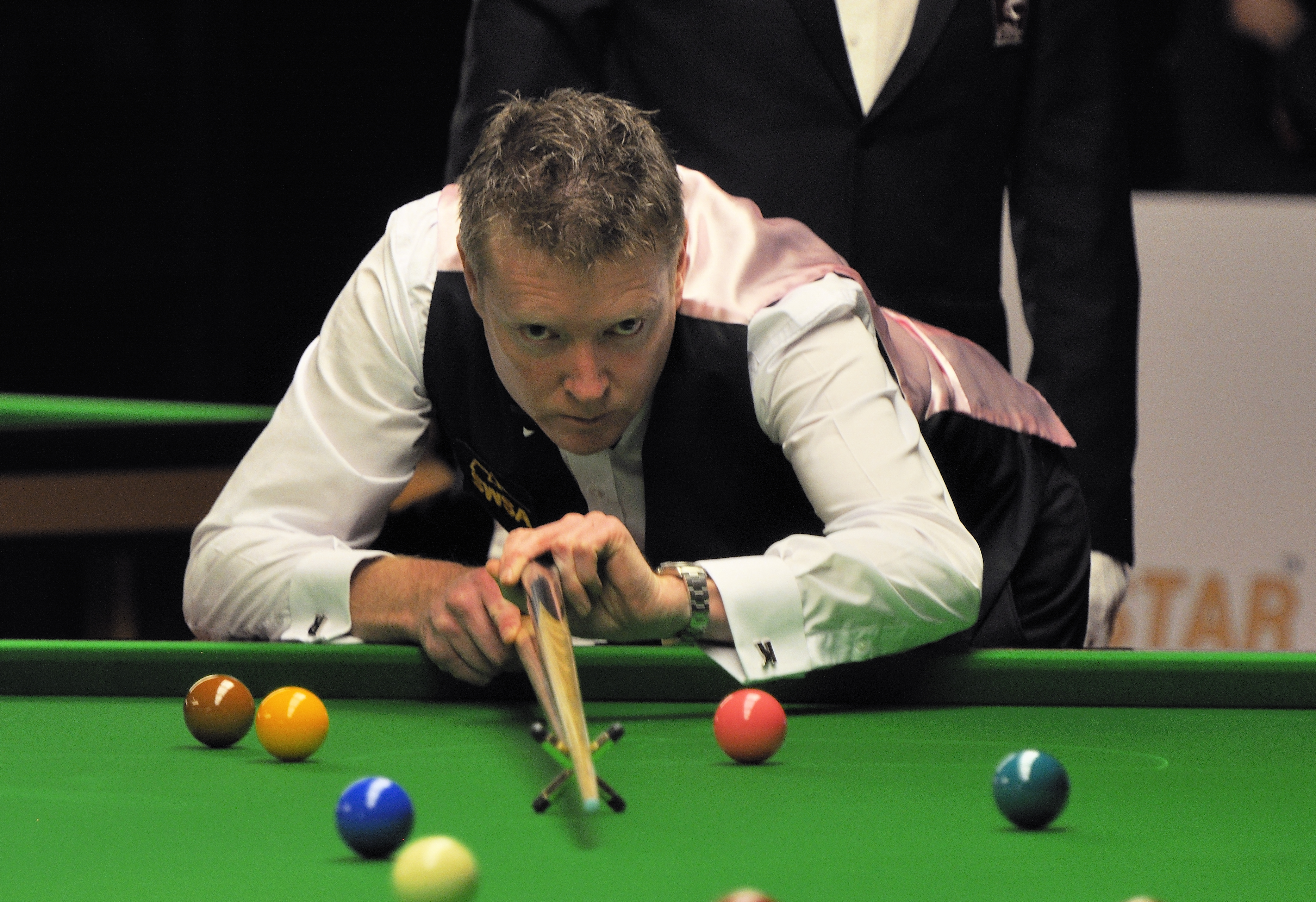 Picture taken in Berlin during the Snooker German Masters in 2014. Gerard Greene.